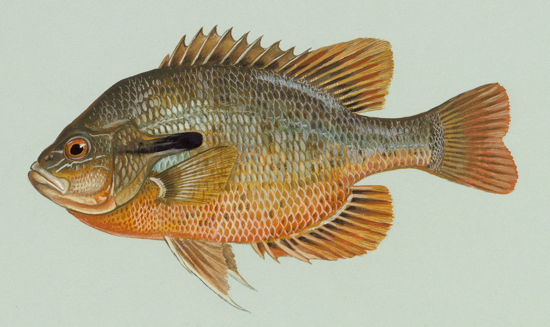 Redbreast sunfish (Lepomis auritus). Title: Redbreast sunfish Alternative Title: Lepomis auritus Creator: Raver, Duane Source: WVDR-43-Raver Publisher: U.S. Fish and Wildlife Service Contributor: NATIONAL CONSERVATION TRAINING CENTER-PUBLICATIONS AND TRAINING MATERIALS Rights: (public domain) Subject: fish, artwork Abstract: Scans of artwork commissioned by the Fish and Wildlife Service in the 1970's. Original art is kept at NCTC museum. Available: June 20 2002 Issued: June 20 2002 Modified: May 10 2004